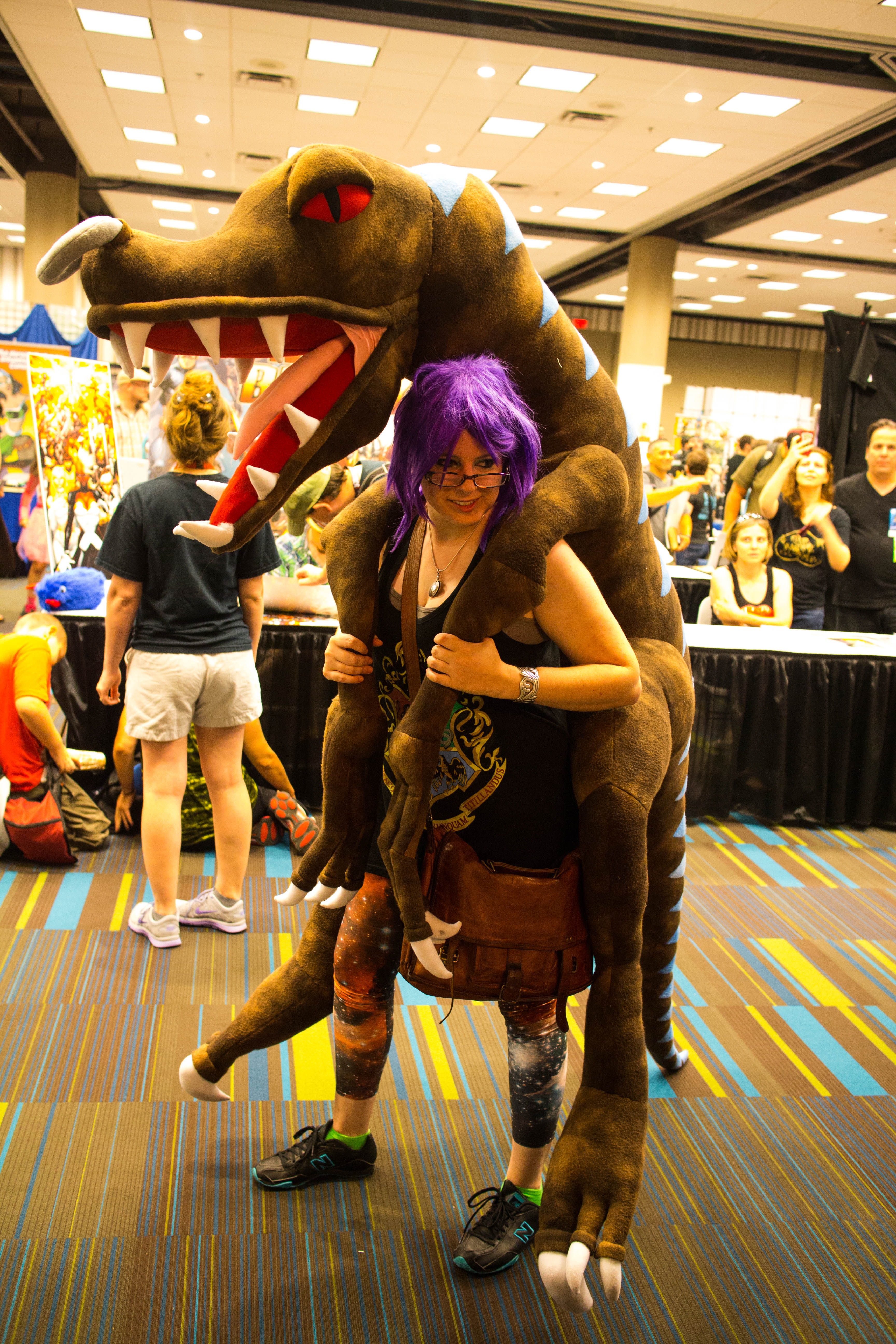 Dragon*Con 2013 Cosplay at Dragon*Con 2013.